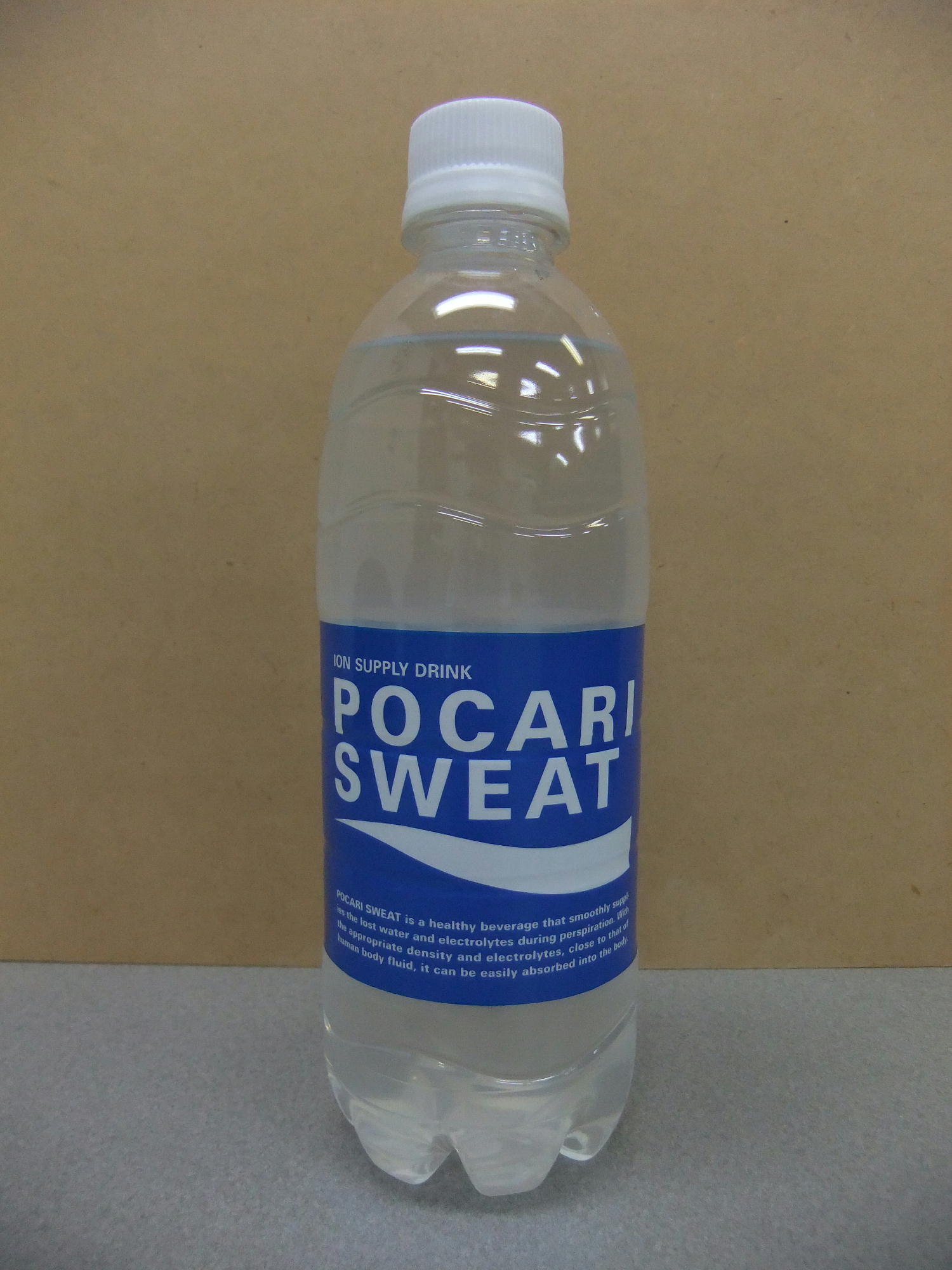 Otsuka Pharmaceutical Co.，Pocari Sweat, 500ml size